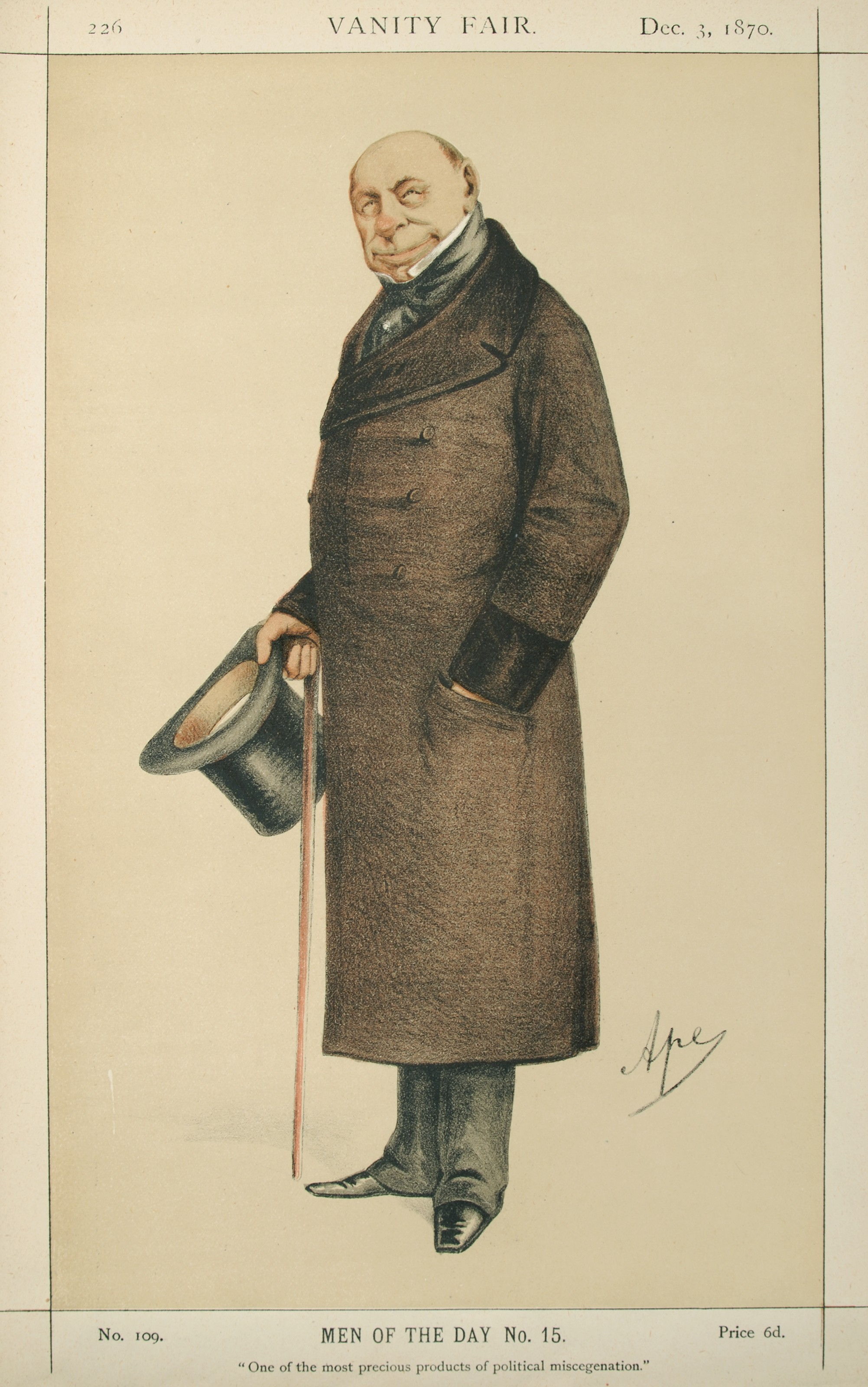 Men of the Day No.15: Caricature of Baron de Brunnow. Caption reads: "One of the most precious products of political Miscengenation."